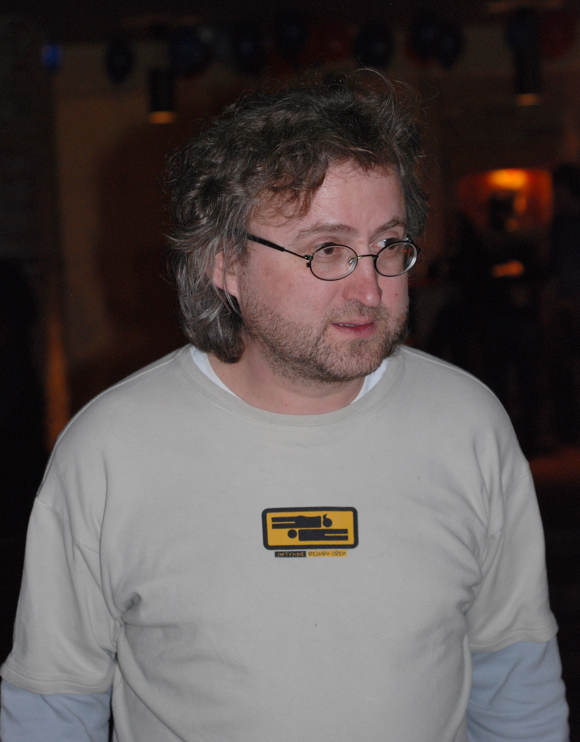 czech movie director Jan Hřebejk